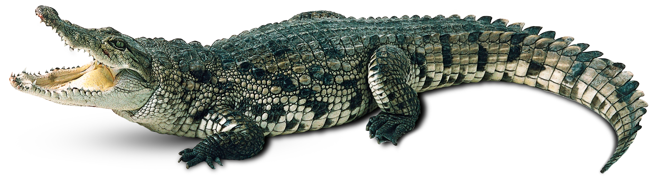 A luscious croc